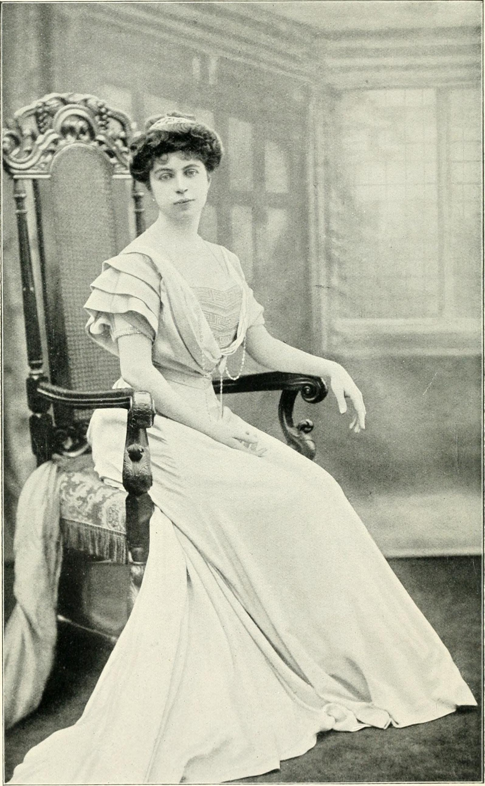 Mrs. LEWIS V. HARCOURT (ca 1911) Photo: Lallie Charles Title: Newfoundland in 1911, being the coronation year of King George V. and the opening of the second decade of the twentieth century Year: 1911 (1910s) Authors: McGrath, P. T. (Patrick Thomas), b. 1868 Subjects: Newfoundland and Labrador Publisher: London : Whitehead, Morris & Co., Ltd. Text Appearing Before Image: The Right Hon. LEWIS V. HARCOURT, M.P. Photo.^ (HniiiBS. Text Appearing After Image: Mrs. LEWIS V. HARCOURT. Pkol O.I (Lallic Chaties, 17 fishing was the chief pursuit of its people, and theynaturally located in as close proxmity to the ocean aspossible. As the map shows, there are many islets aroundthe coast. Belle Isle at the Eastern mouth of the straitof that name, is best known as the land-fall of Canadianshipping in the summer months. Notre Dame Bay isthickly dotted with land-masses, some of moderate size.In Bonavista Bay there are many others. Trinity Bayhas Random Island, one of the largest. In Conception;Bay is Bell Island, the seat of the immense hematit©iron deposits that supply the raw material for thesmelters at Sydney, Cape Breton. Placentia Bay hasMerasheen and several others. Off Burin Peninsula isthe little French archipelago of St. Pierre-Miquelon, andfurther West are Bamea and Burgeo Islands—somethree hundred in all—the former the starting point ofthe seaboard where Americans possess fishing rightsunder the treaty of 1818 ; while on the west coa